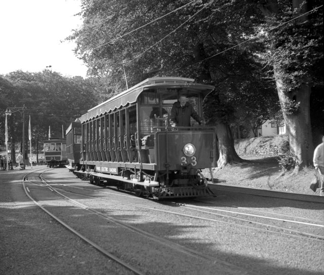 Laxey station Crossbench car No 33 with trailer stands on the northbound track. Senior motorman Mike Goodwyn, whose favourite car this was, is seen at the controls. Later he wrote a book about the Manx Electric Railway.